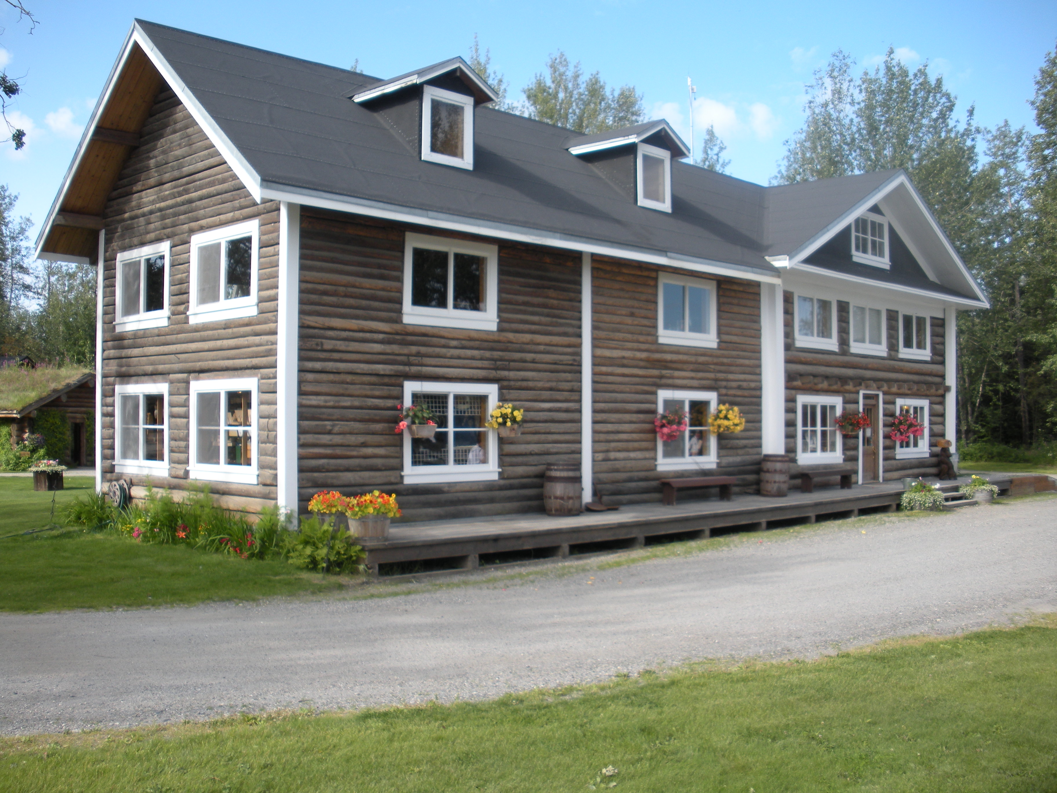 Rika's Landing Roadhouse, a roadhouse on the National Register of Historic Places in Southeast Fairbanks Census Area, Alaska, United States. It is located at mile 252 of the Richardson Highway in Big Delta at a historically important crossing of the Tanana River. It is in the Big Delta State Historical Park and is NRHP Building #76000364, added 1976. The roadhouse is named after Rika Wallen. This particular view is of the front (river) side